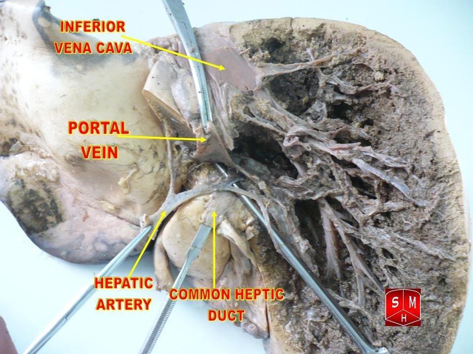 Liver with portal vein dissected